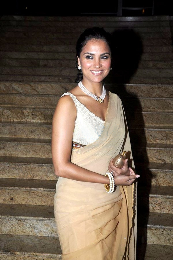 Lara Dutta at Anmol Jewellers 25th anniversary bash